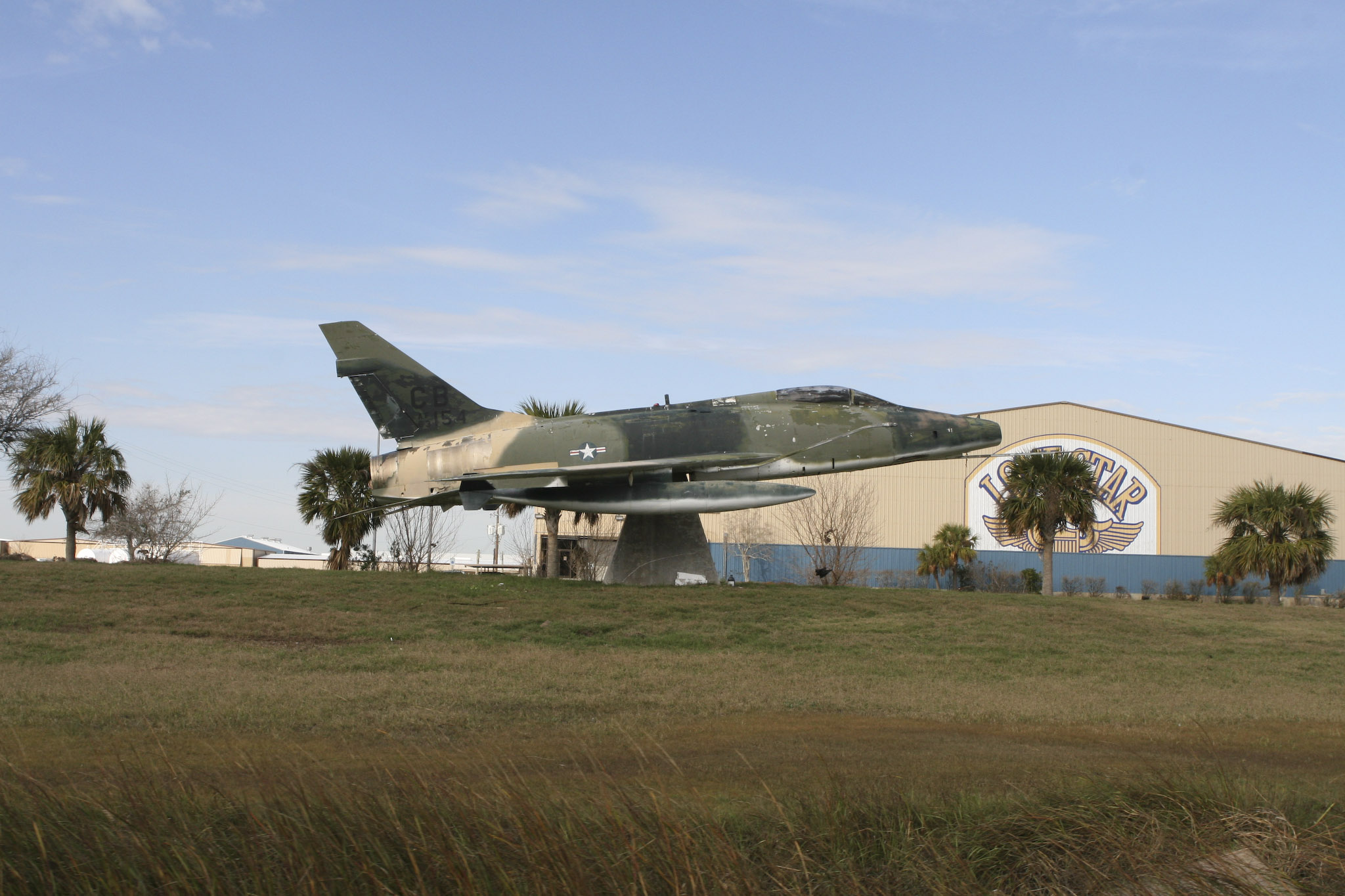 A photo of the front of the Lone Star Fight Museum, taken 4 months after hurricane Ike